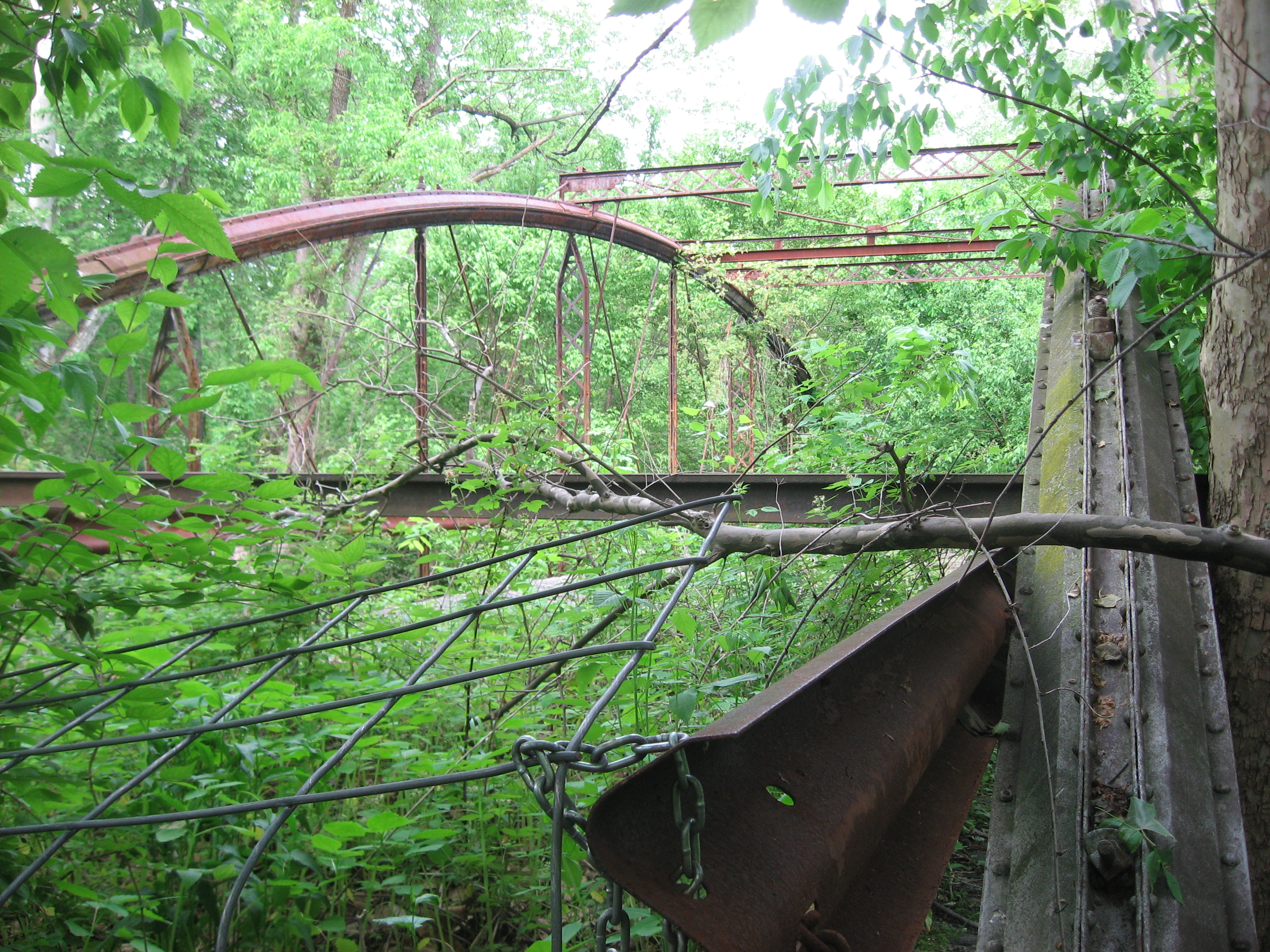 Western end of the Caledonia Bowstring Bridge, an abandoned bridge that spans the Olentangy River just north of Caledonia in Claridon Township, Marion County, Ohio, United States. Built in 1873, it is listed on the National Register of Historic Places.